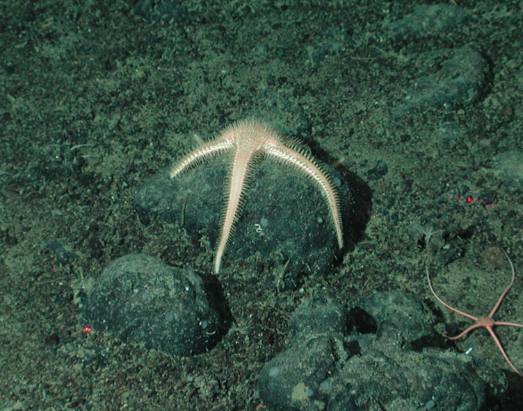 Prickly sea star (Benthopecten sp.) and brittle stars on the Davidson Seamount at 2461 meters depth.